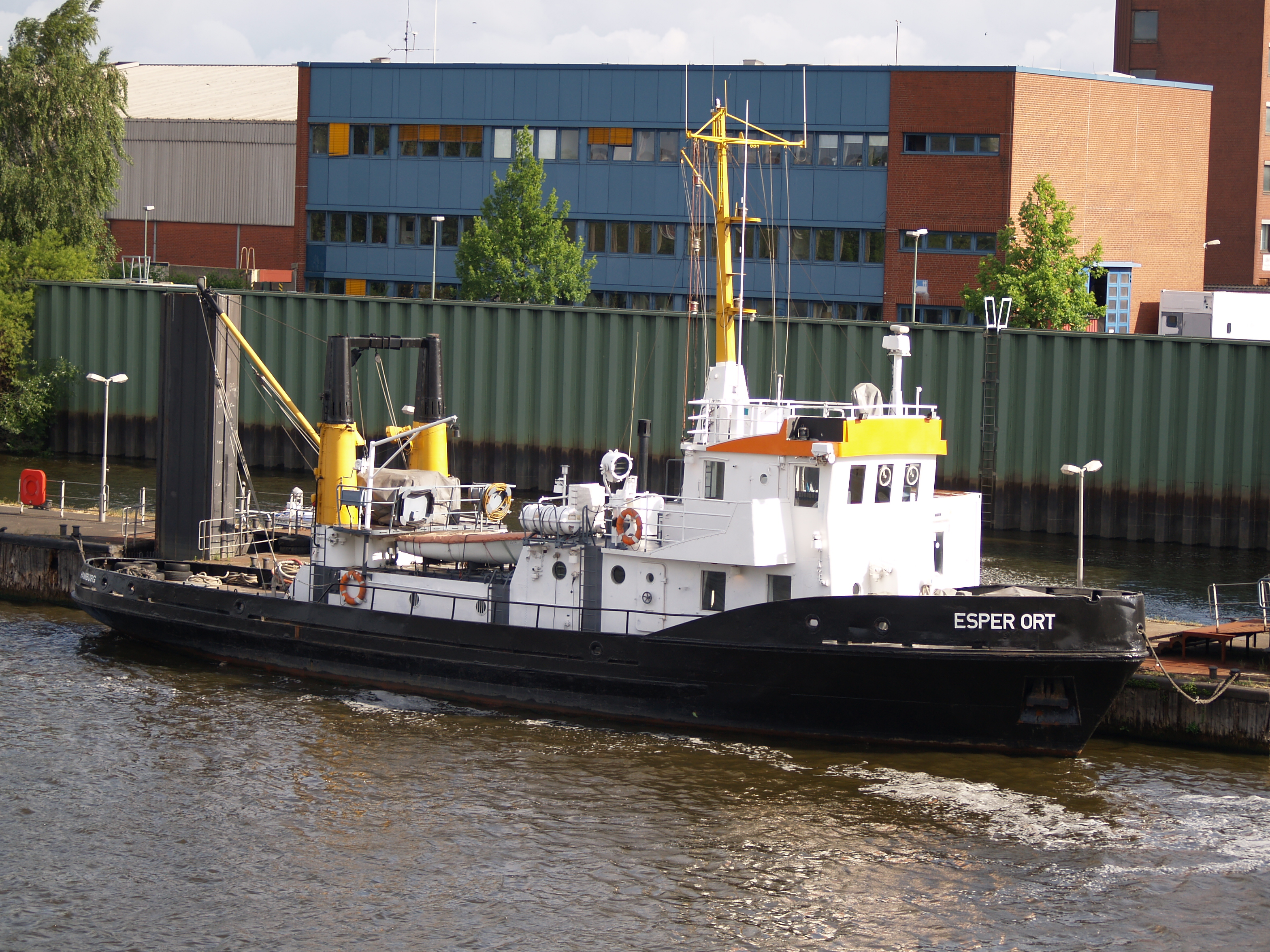 buoy vessel "Esper Ort"